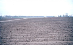 Fields at the Nodena Site, located along the Mississippi River east of Wilson in Mississippi County, Arkansas, United States. The site is a National Historic Landmark.